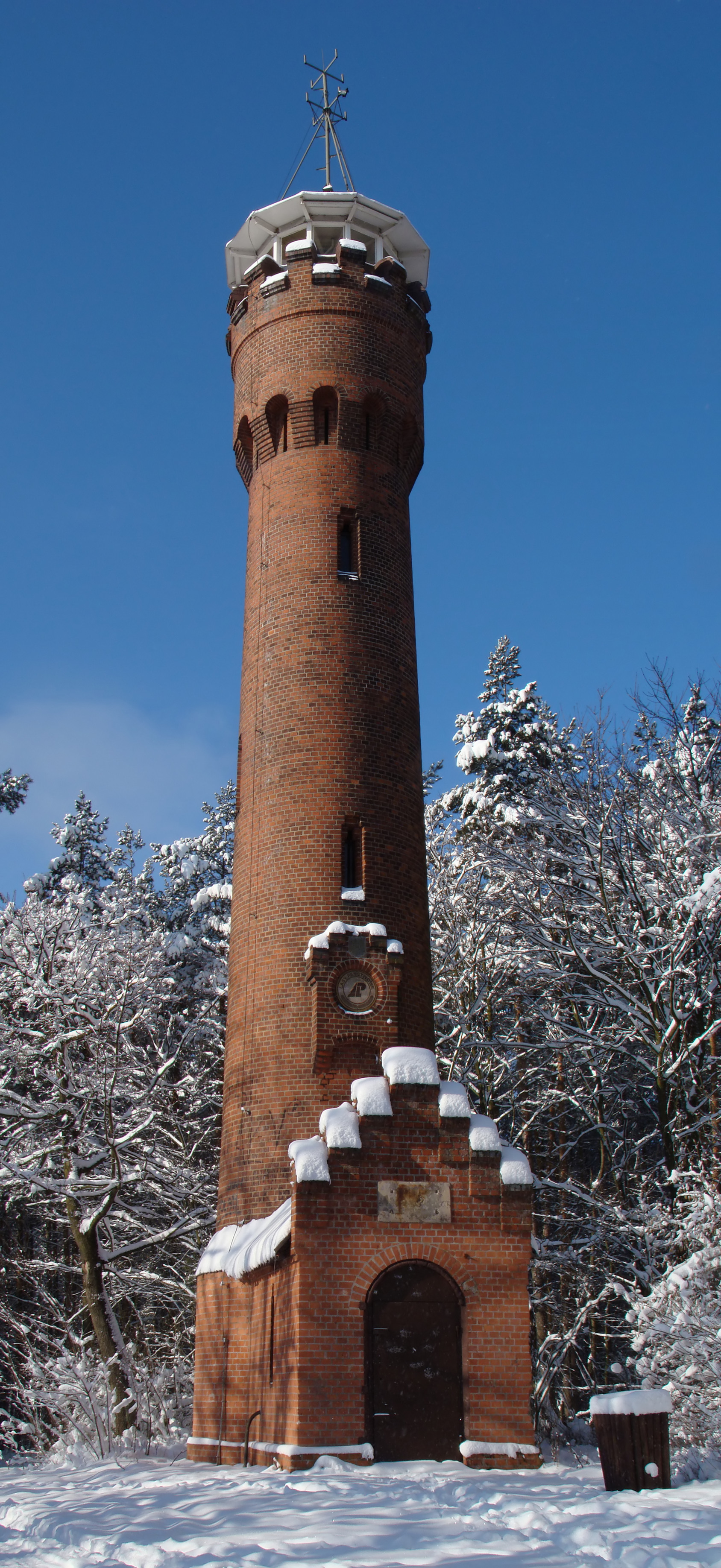 Bismarck tower in Zielona Góra, Poland.